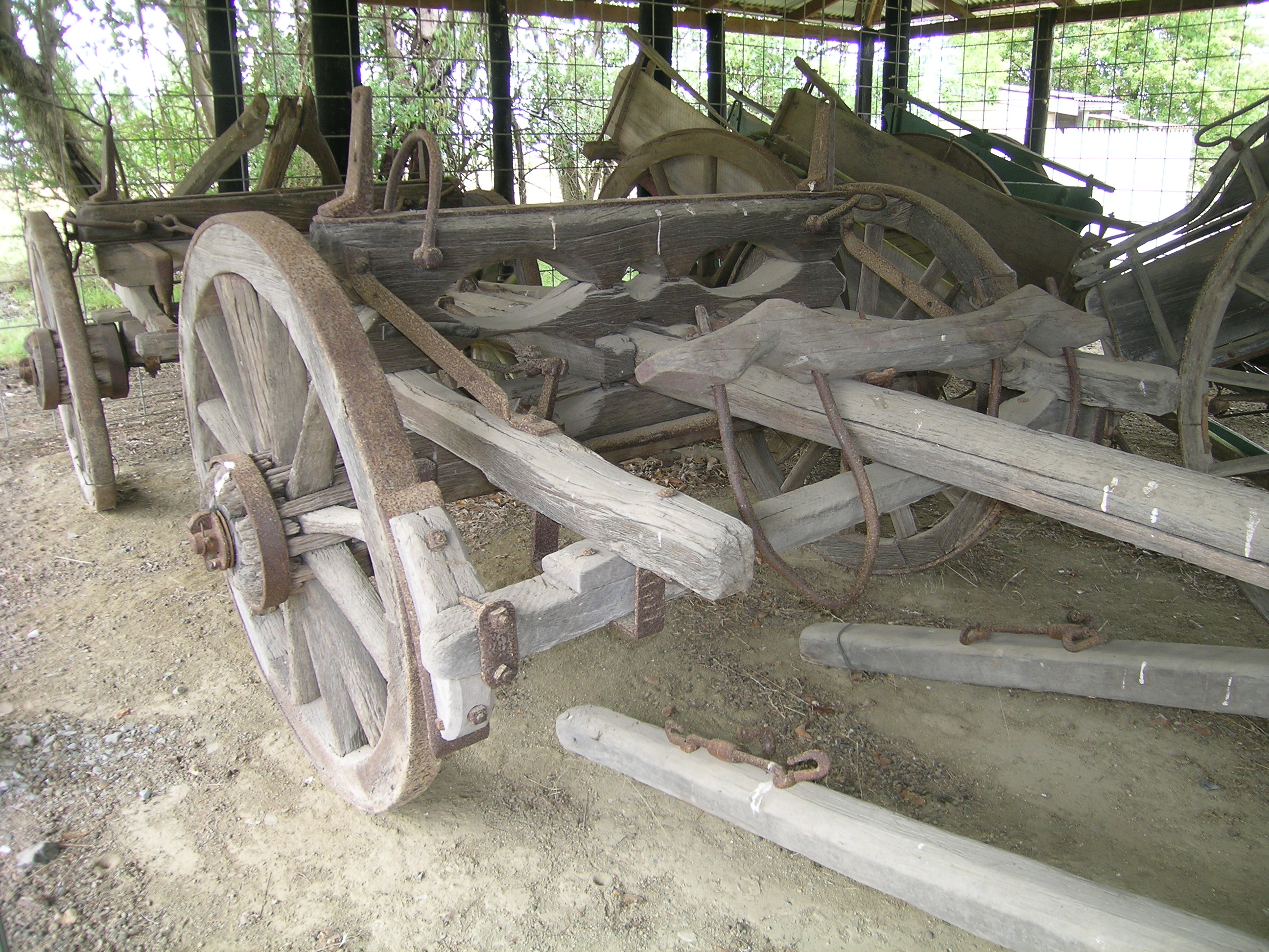 A large timber jinker which was drawn by a bullock team, with a bullock yoke sitting on the pole, Hillgrove, NSW